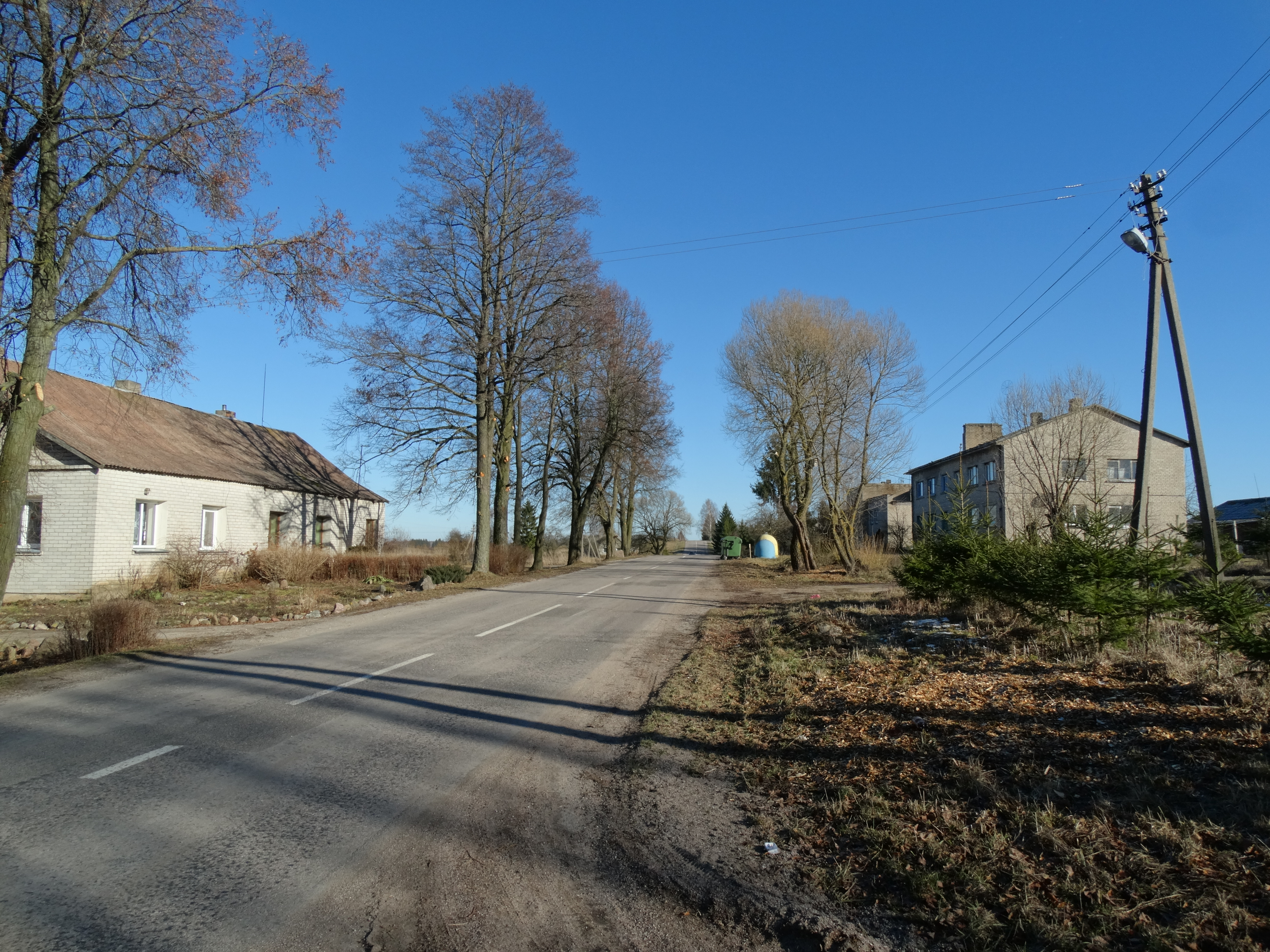 Vaisodžiai, Alytus district, Lithuania